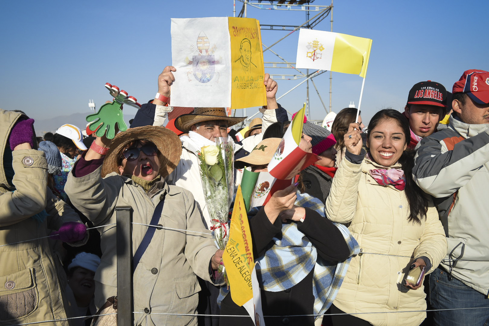 ECATEPEC, MEXICO: Images before the Mass in the area of the “study center” of Ecatepec. Pope Francis is expected to give the Homily as well as recite the Angelus. Photo by: Marko Vombergar/ALETEIA